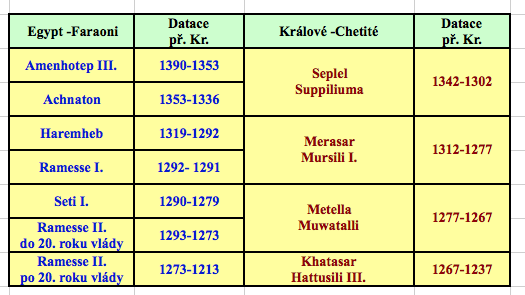 According to "Ancient Records of Egypt", James Henry Breasted Vol III, Chicago 1906 by James Henry Breasted